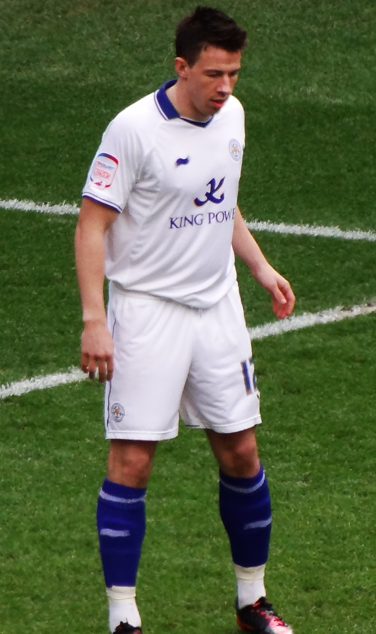 (Image cropped from original at Flickr)